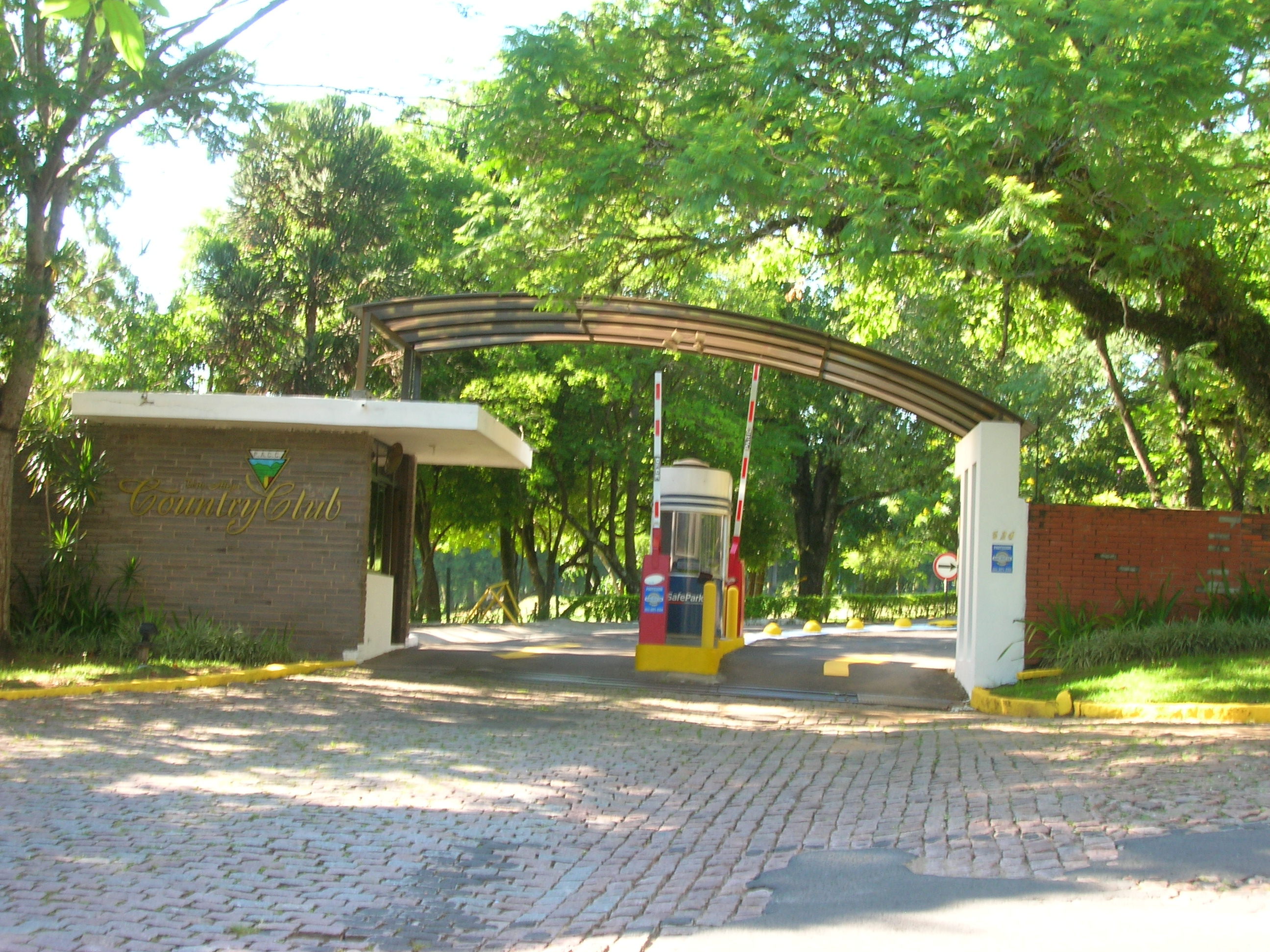 The Porto Alegre Country Club main entry gate, in the Boa Vista neighbourhood.